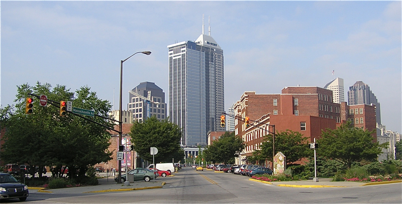 Massachusetts Avenue; Indianapolis, Indiana; July 2008.